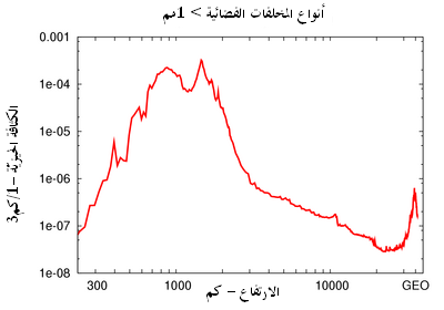 Spatial Density of Fragmentation Debris, * generated by Mikeo From English Wikipedia